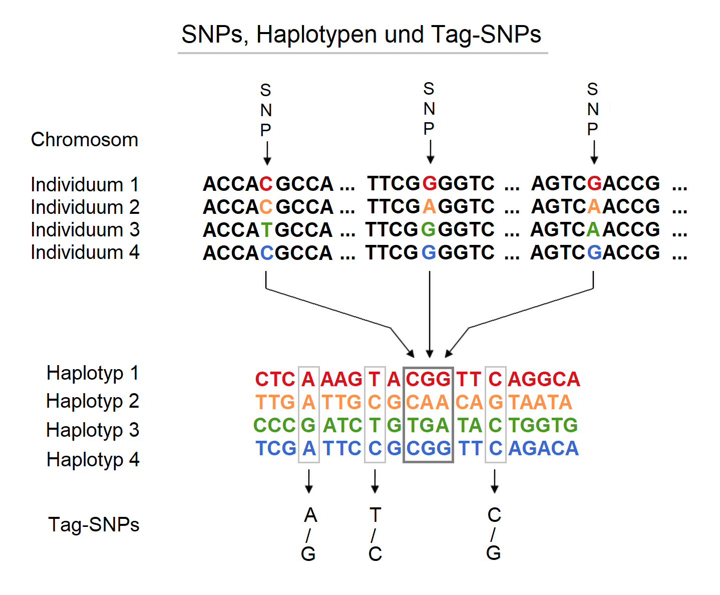 Haplotypes from comparison of SNPs in a part of the same chromosome of 4 individuals. Derived from